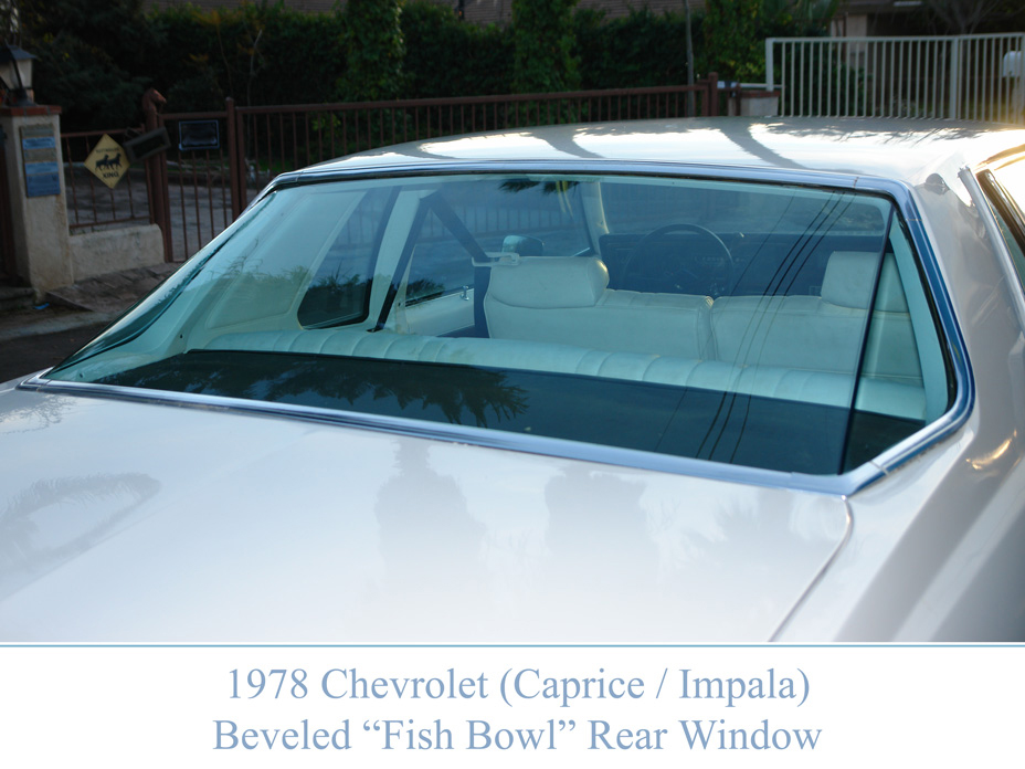 1978 Chevrolet Impala rear window detail